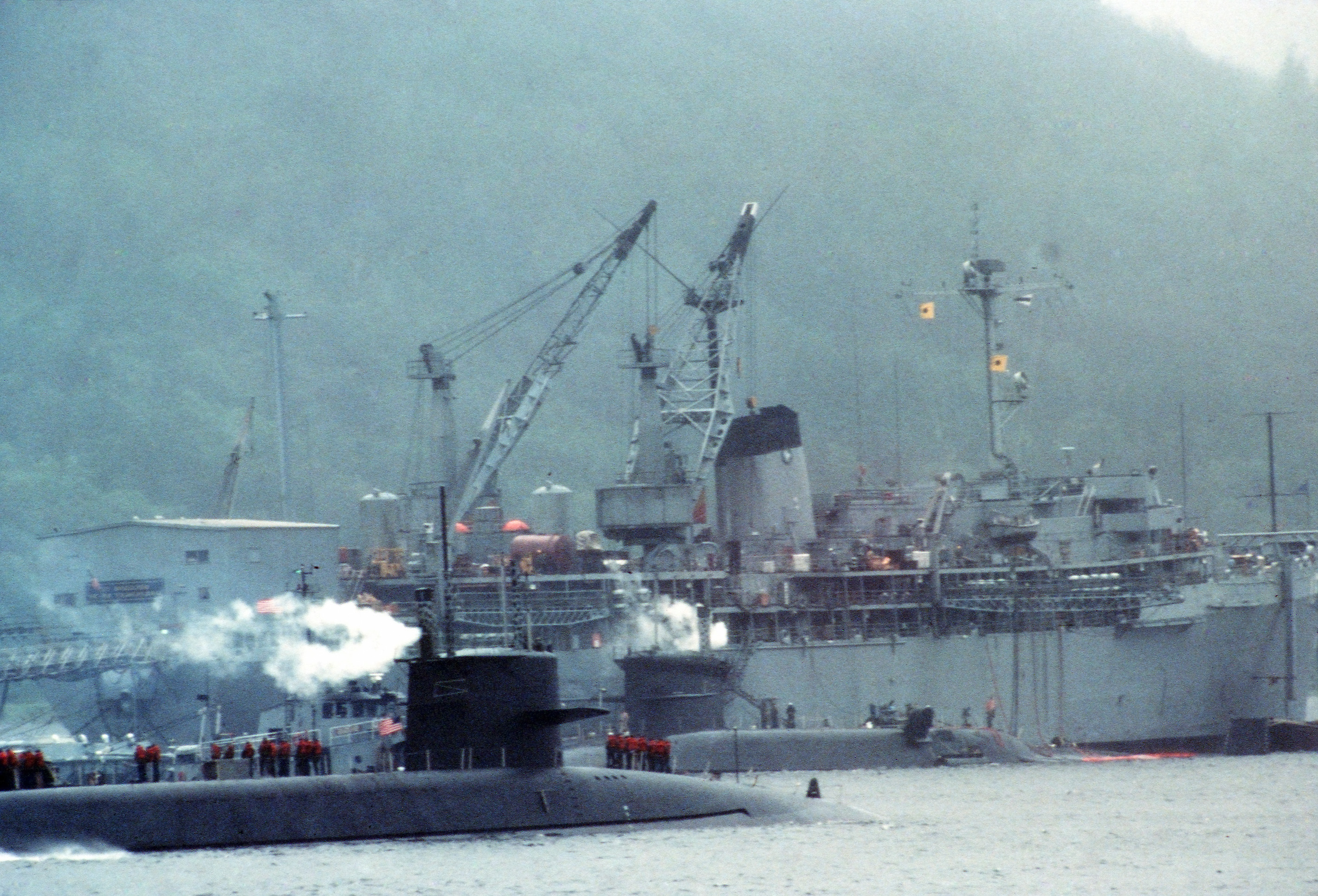 Two U.S. Navy submarines come alongside the fleet ballistic missile submarine tender USS Hunley (AS-31) at Navy Fleet Ballistic Submarine Refit Site 1 at Holy Loch, Scotland (UK), on 1 December 1985.